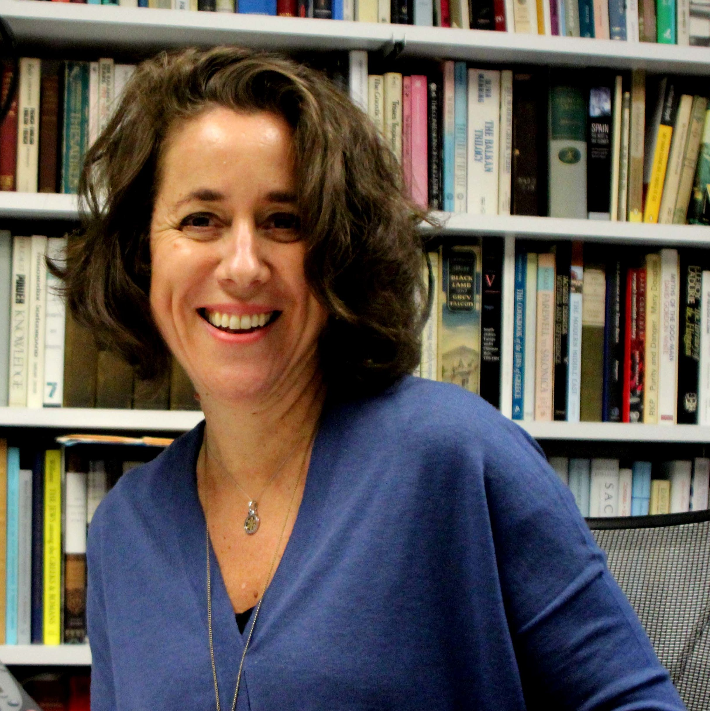 K E Fleming at Remarque, NYU